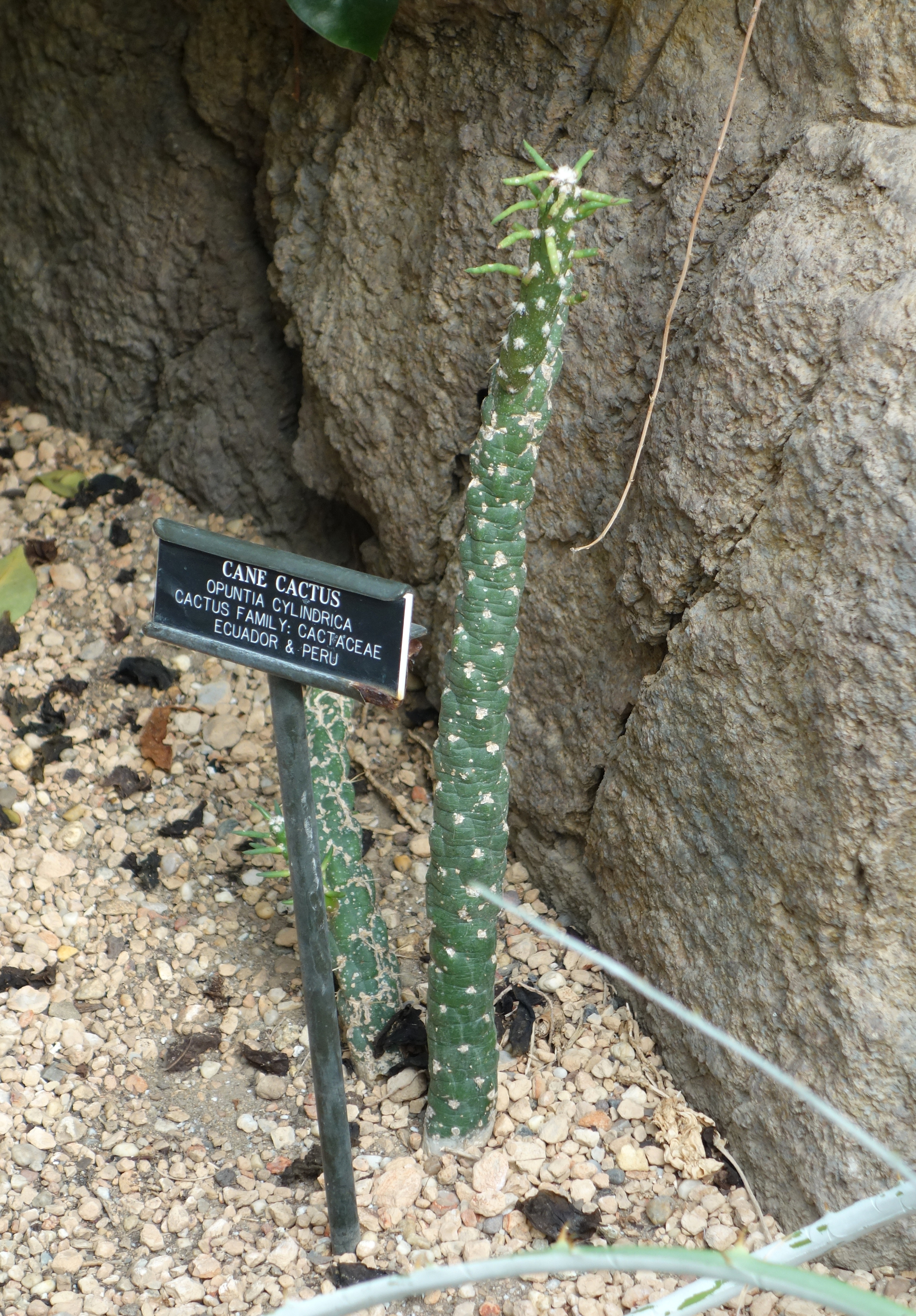 Botanical specimen in the Brooklyn Botanic Garden, Brooklyn, New York, USA.